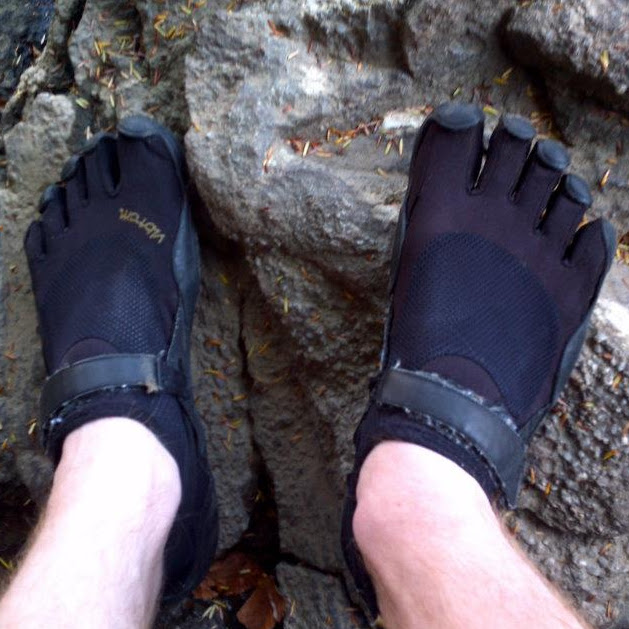 Vibram FiveFingers KSO, a minimalist shoe designed to replicate a barefoot experience, especially during sports.